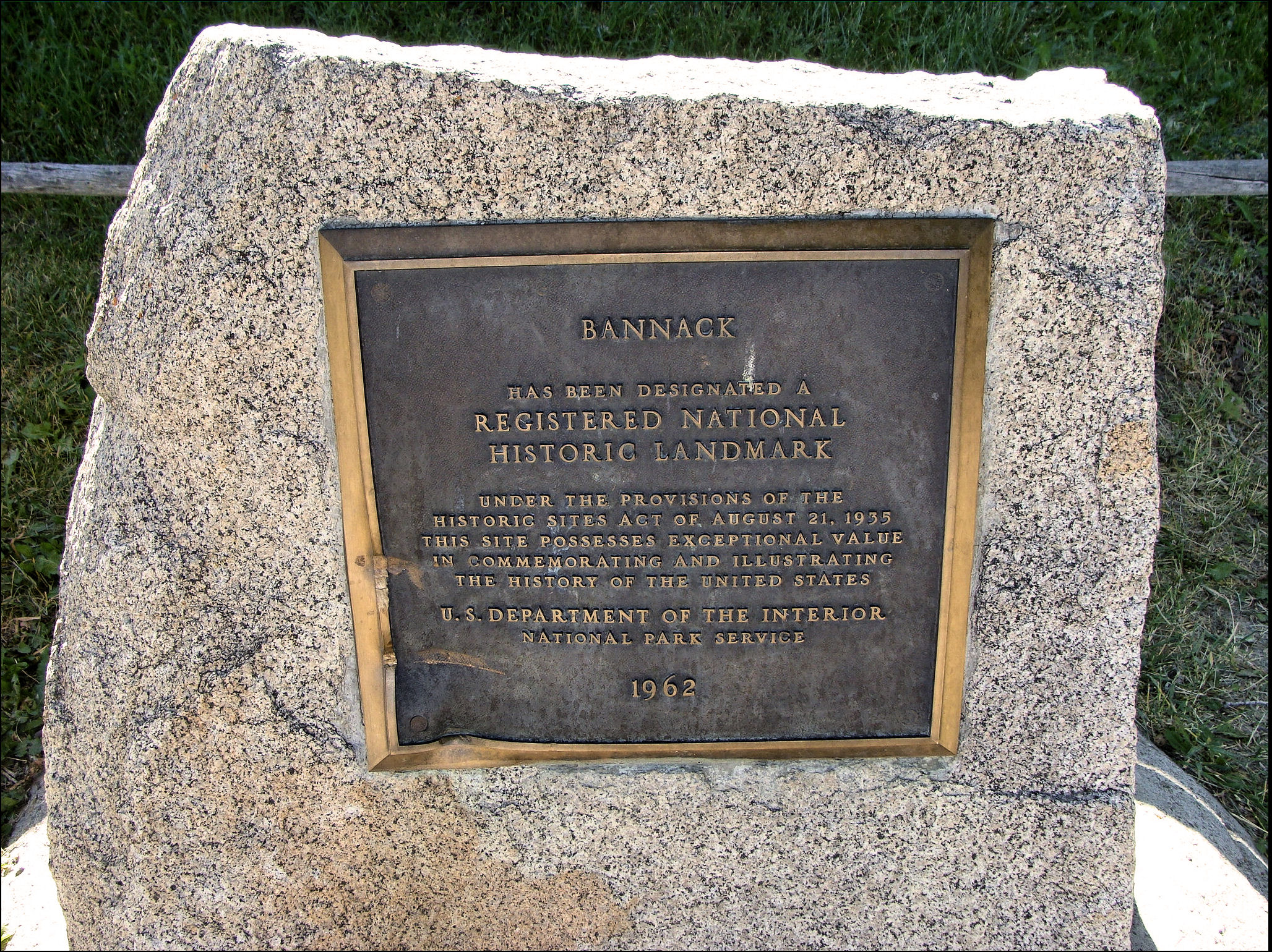 Bannack is doubly significant. It was the site of the first territorial capitalof Montana and also the site of the first discovery of gold in that territory. The discovery of gold in this region resulted in a rush to the gold mining region by way of the Bozeman Trail and up the Missouri River which in turn had a marked effect upon the Indian relations of the Trans-Mississippi West. Click here to read more from the National Registry..